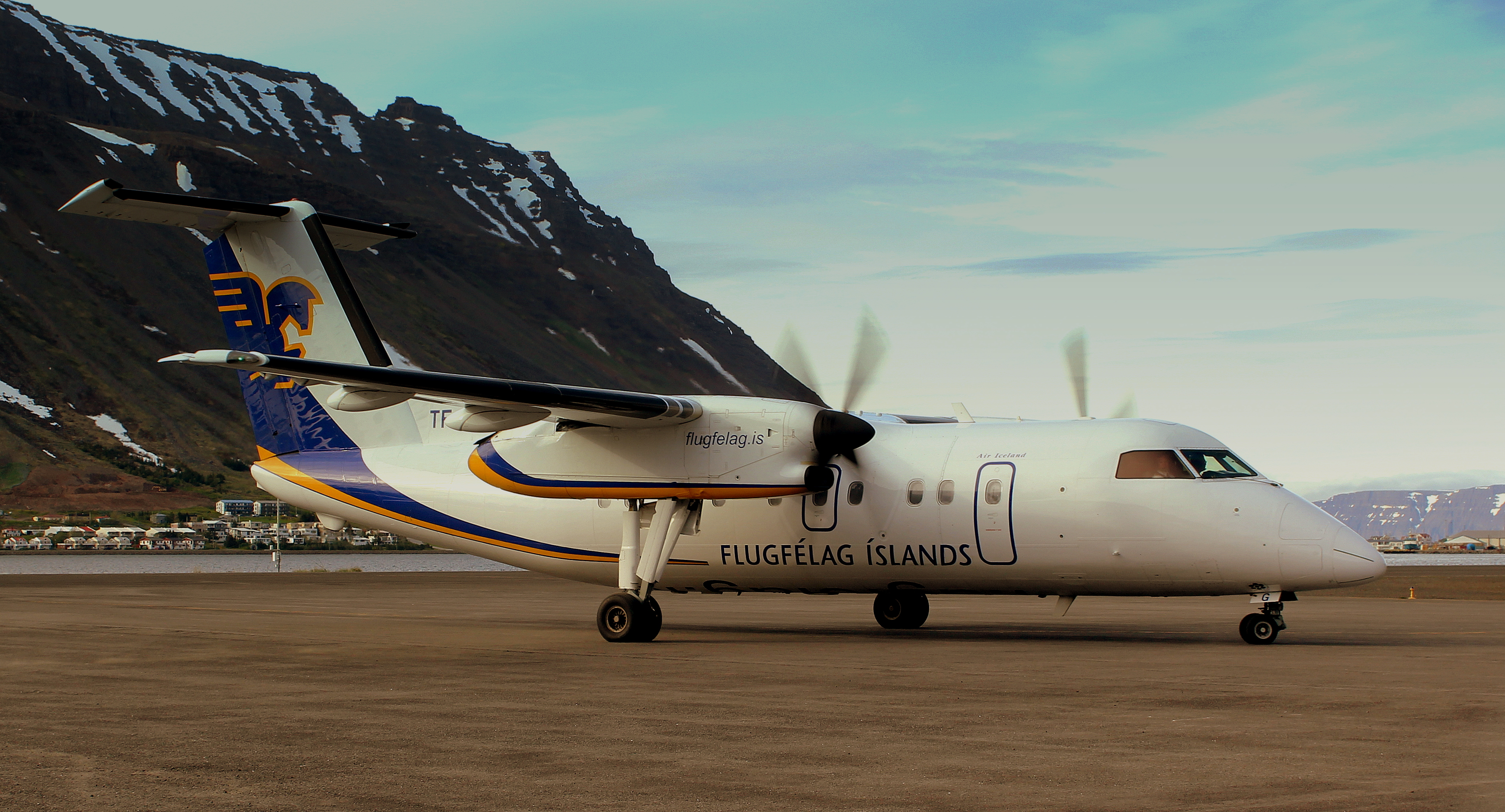 Air Iceland Dash 8-100 at Ísafjörður Airport